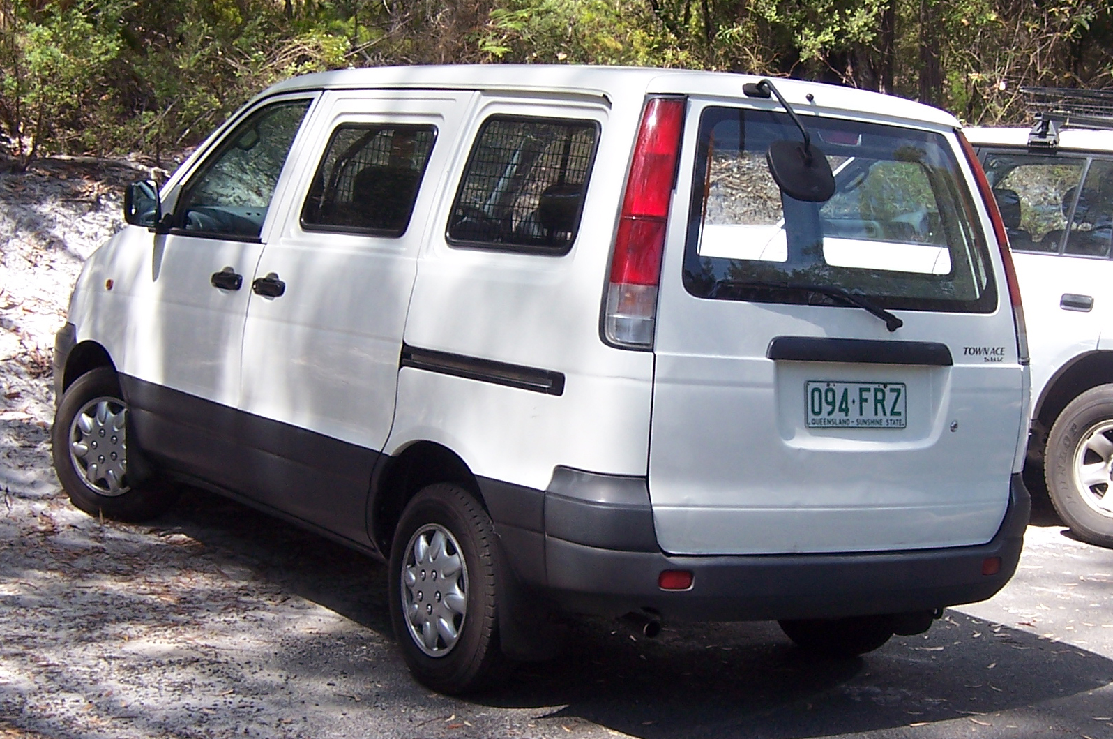 1999–2003 Toyota TownAce (KR42R) van. Photographed on Fraser Island, Queensland, Australia. Vehicle registration enquiry results Jurisdiction Queensland Registration 094FRZ Chassis code JT721KR4300044419 Year of manufacture 2000